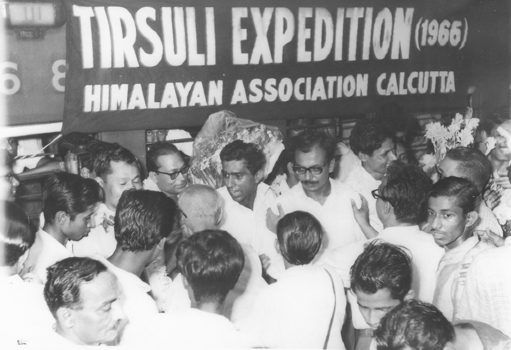 After return of the team climbed the peak Tirsuli for the first time.